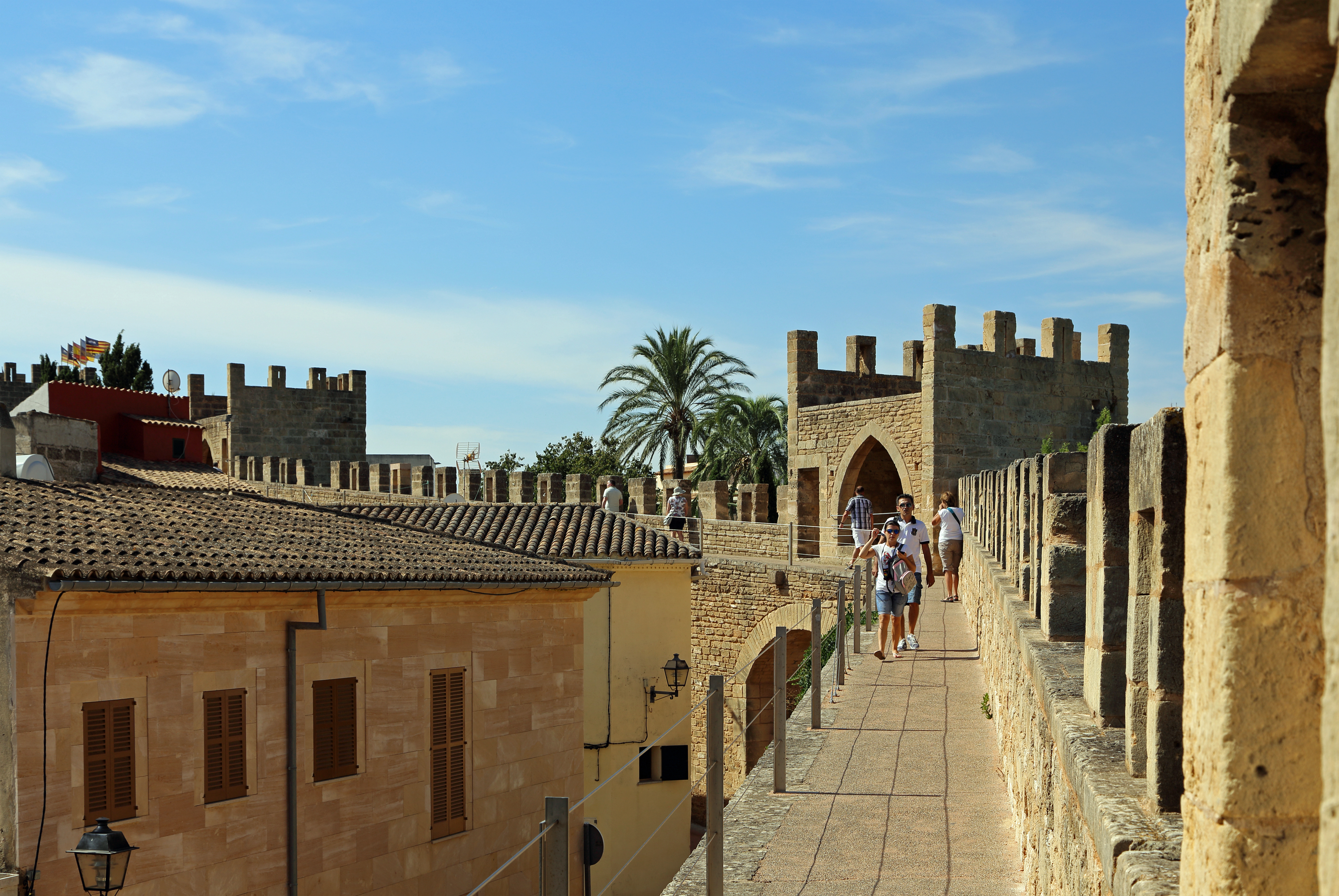 Alcúdia (Majorca, Spain): city walls